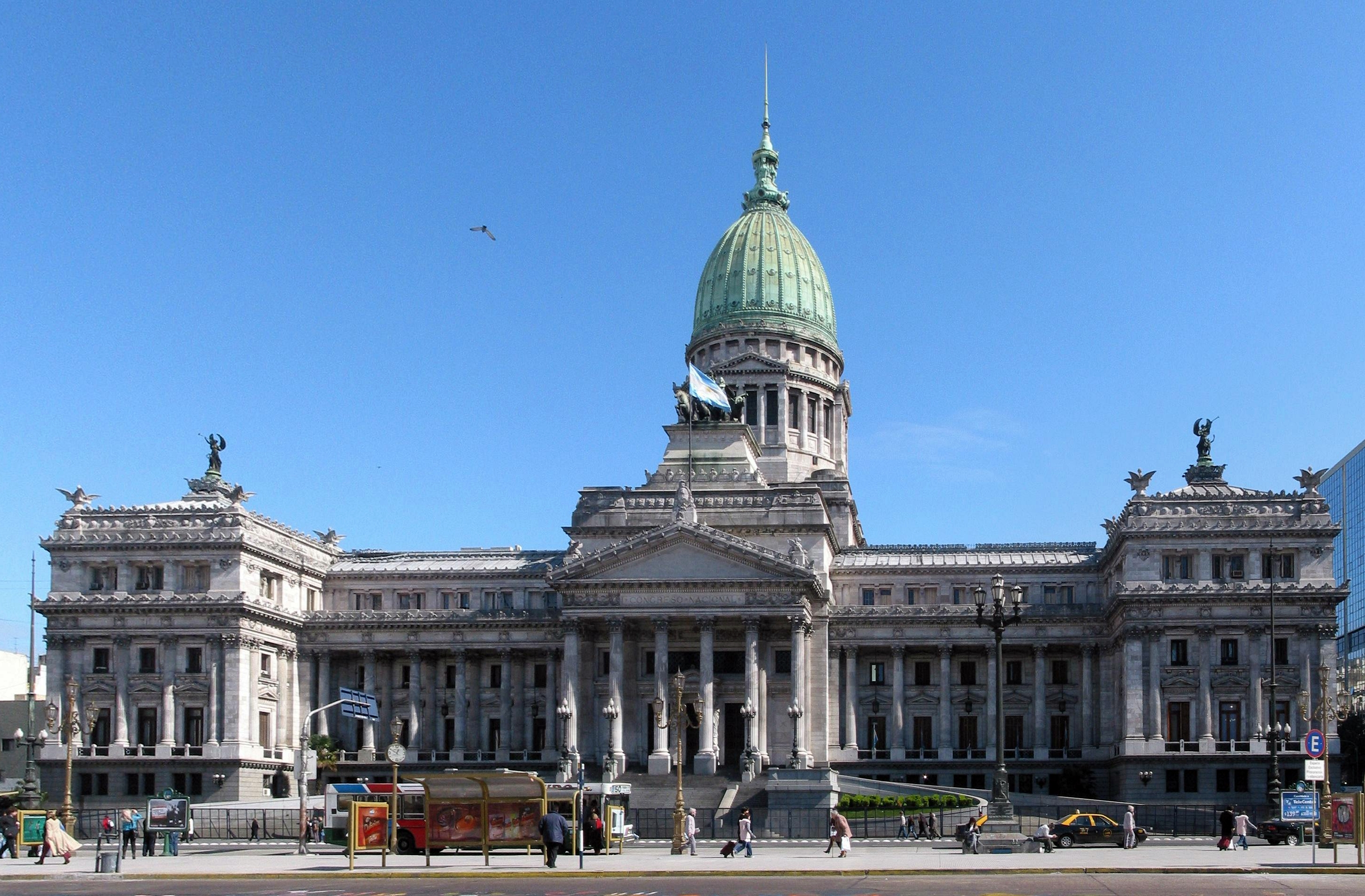 Argentine National Congress, located in the city of Buenos Aires, Argentina. The legislative branch of the government of Argentina works inside it. It is composed by a deputies chamber and a senate chamber.